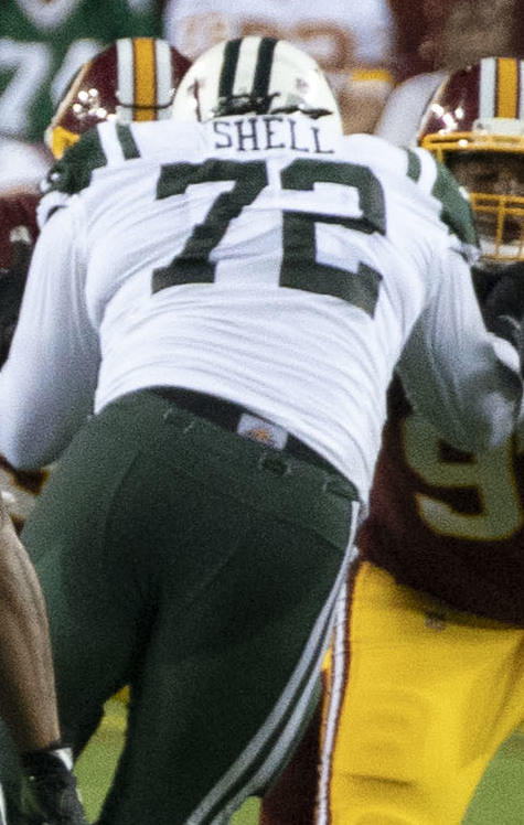 Jets at Redskins 8/16/18